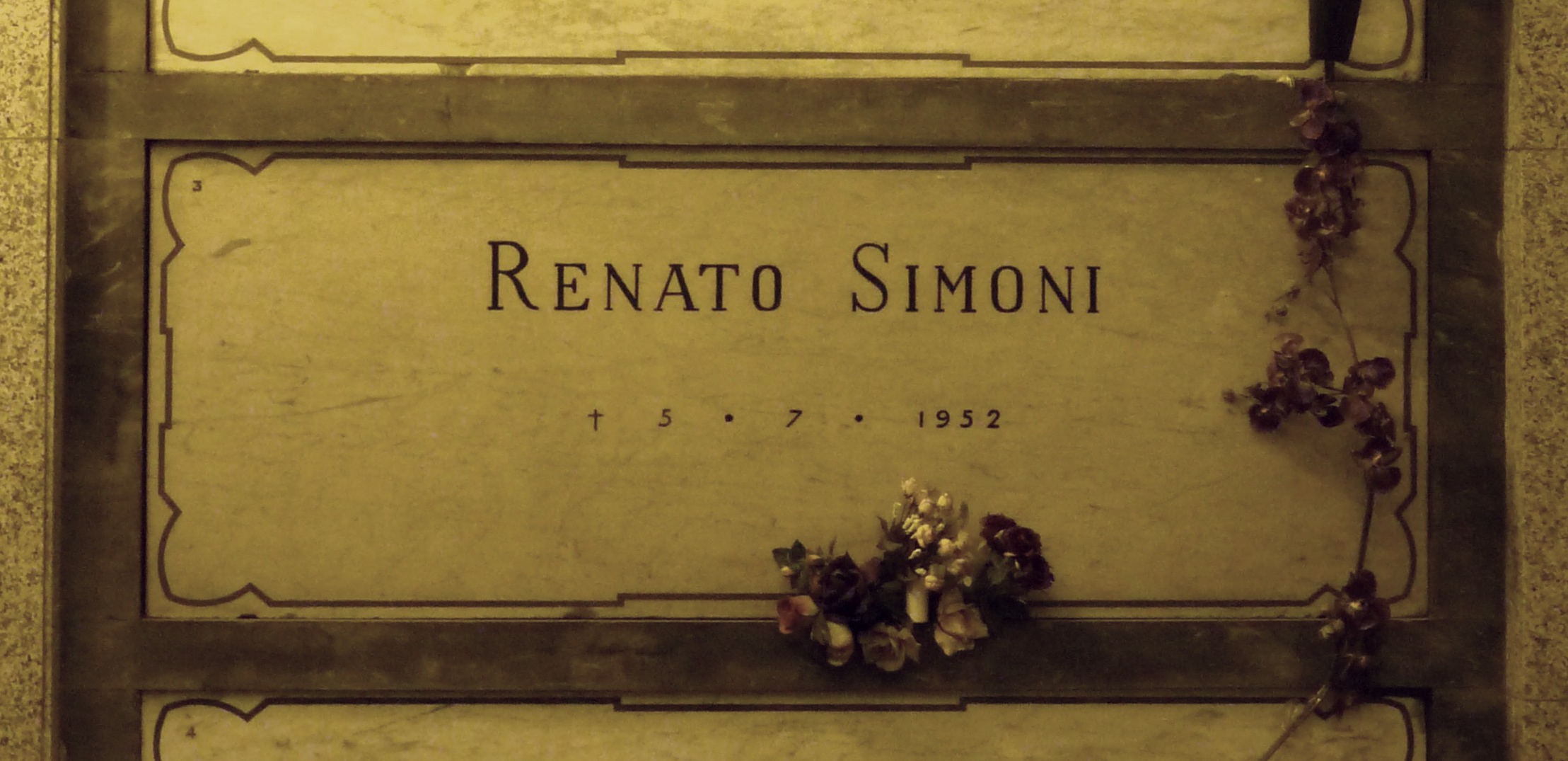 The grave of Italian playwright Renato Simoni at the Monumental Cemetery of Milan, Italy.